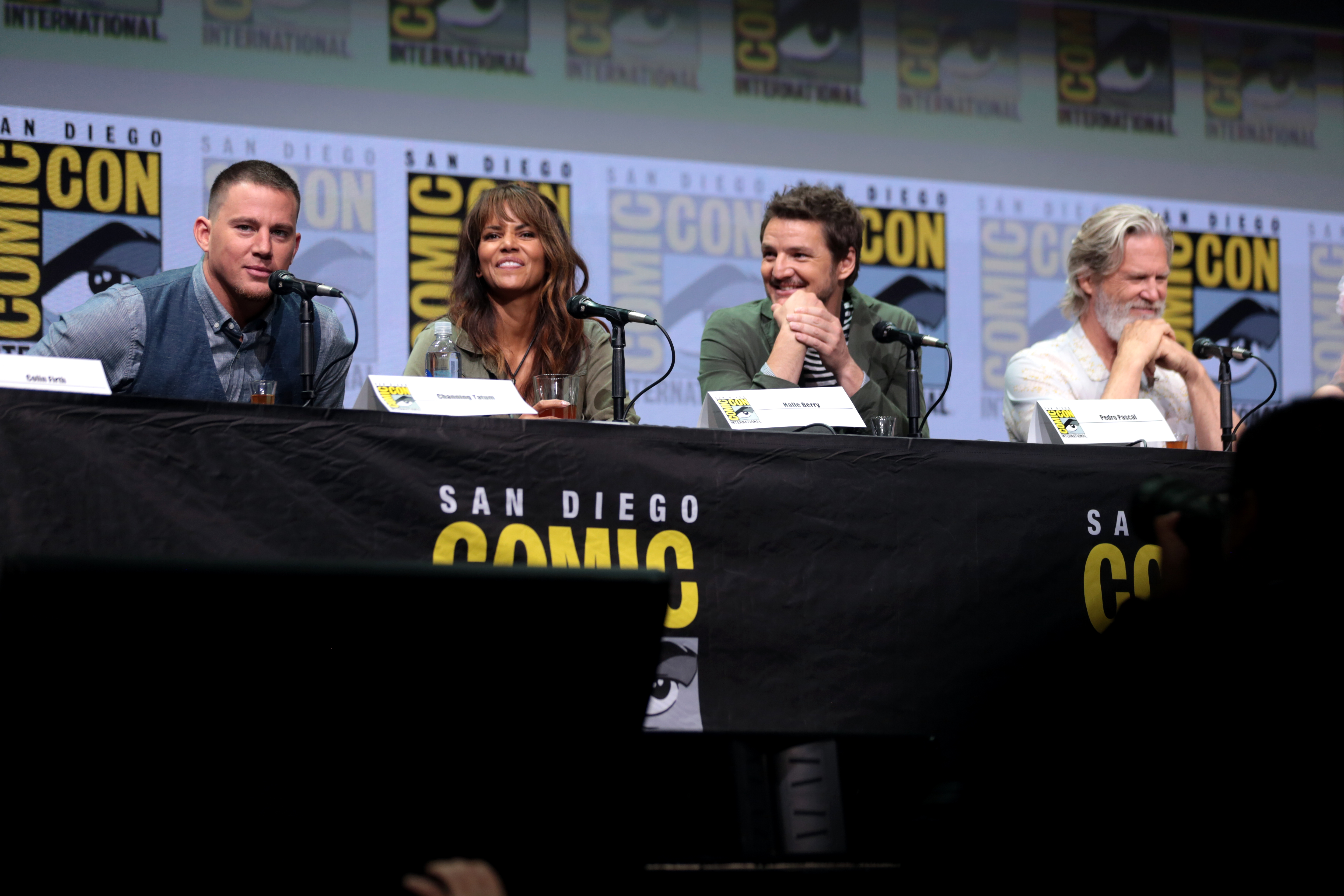 Channing Tatum, Halle Berry, Pedro Pascal and Jeff Bridges speaking at the 2017 San Diego Comic Con International, for "Kingsman: The Golden Circle", at the San Diego Convention Center in San Diego, California.